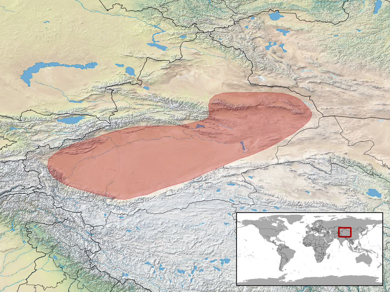 geographic distribution of Cyrtopodion elongatum (Native: China (Xinjiang))